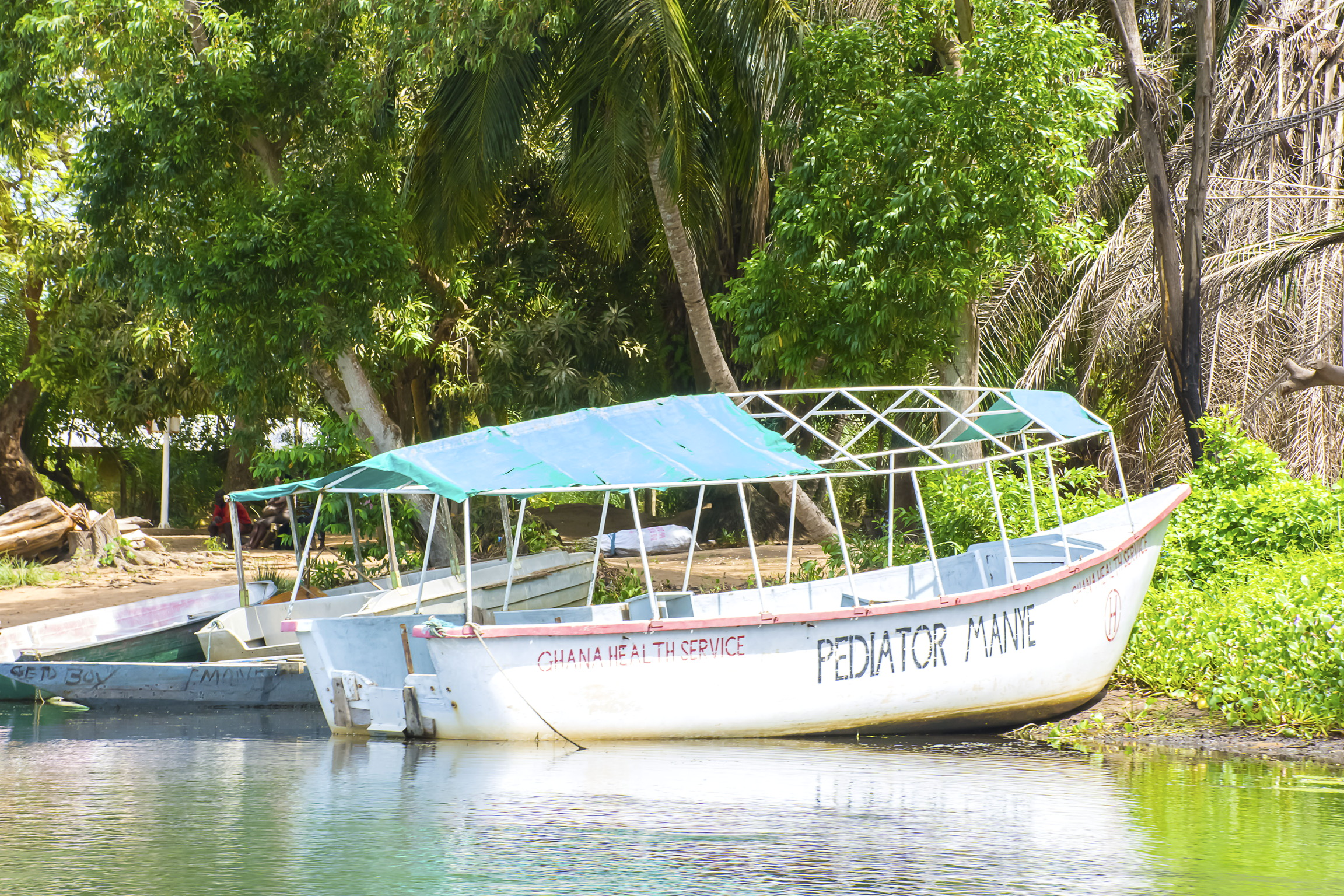 This is a little community which resides along the Volta river in greater Ada region in Ghana. All the business they do revolves around the river. This ambulance is used in carrying sick people to the mainland where the hospital is located. This is an image with the theme "Play" from: Ghana